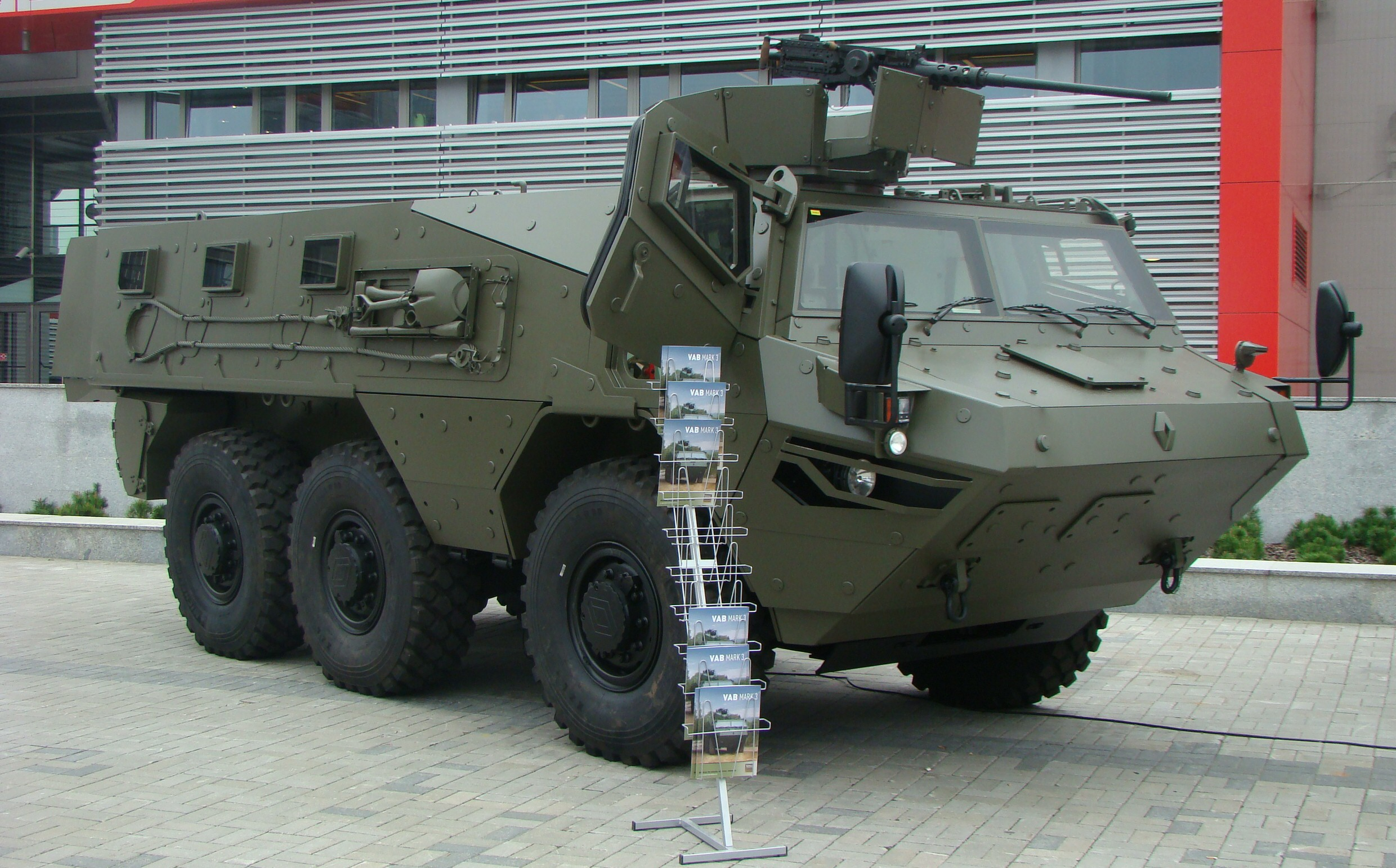 VAB Mk3 at MSPO 2014